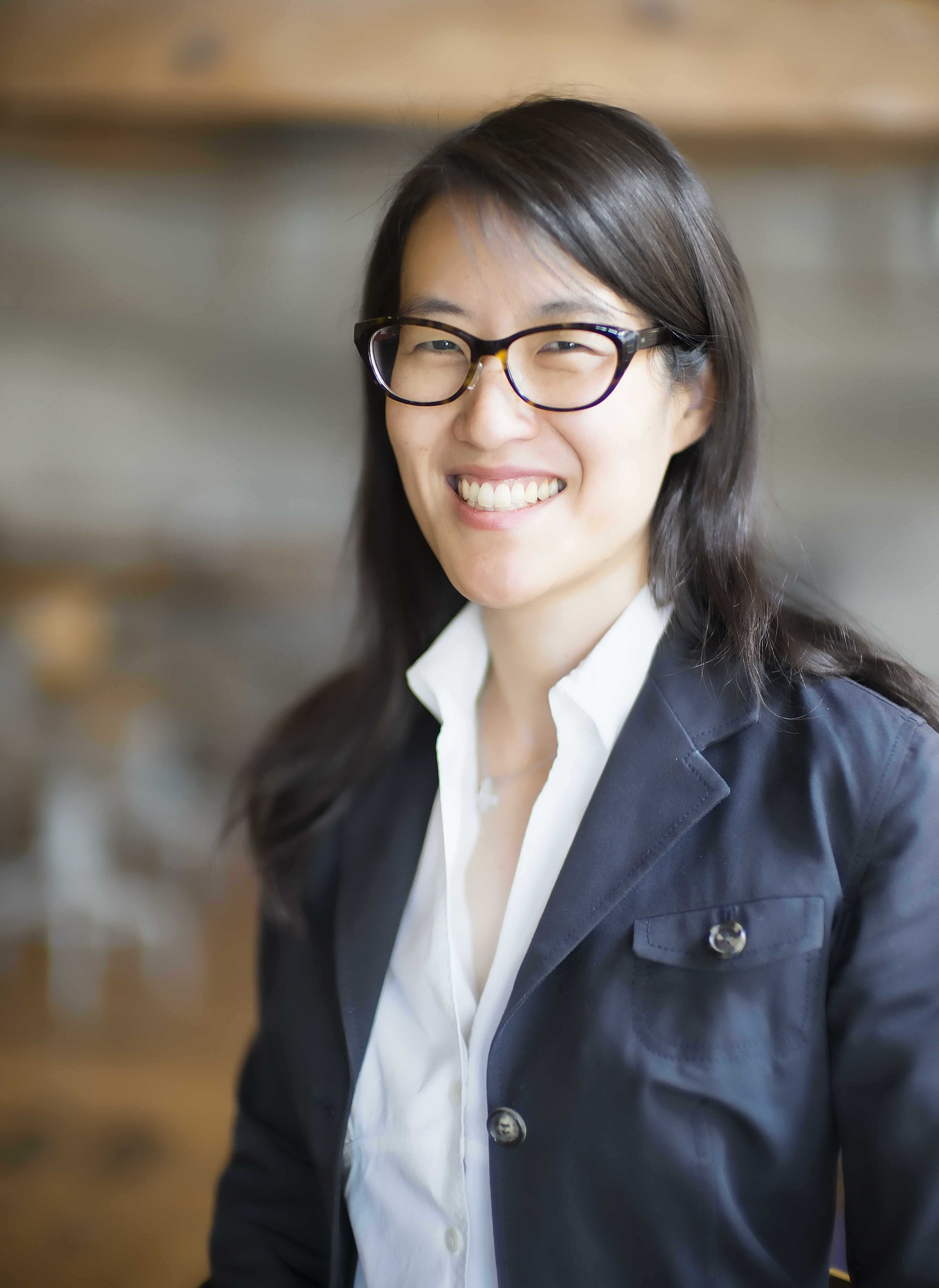 Ellen Pao, formerly interim CEO of Reddit and previously a junior investing partner at Kleiner Perkins Caufield & Byers, LLC